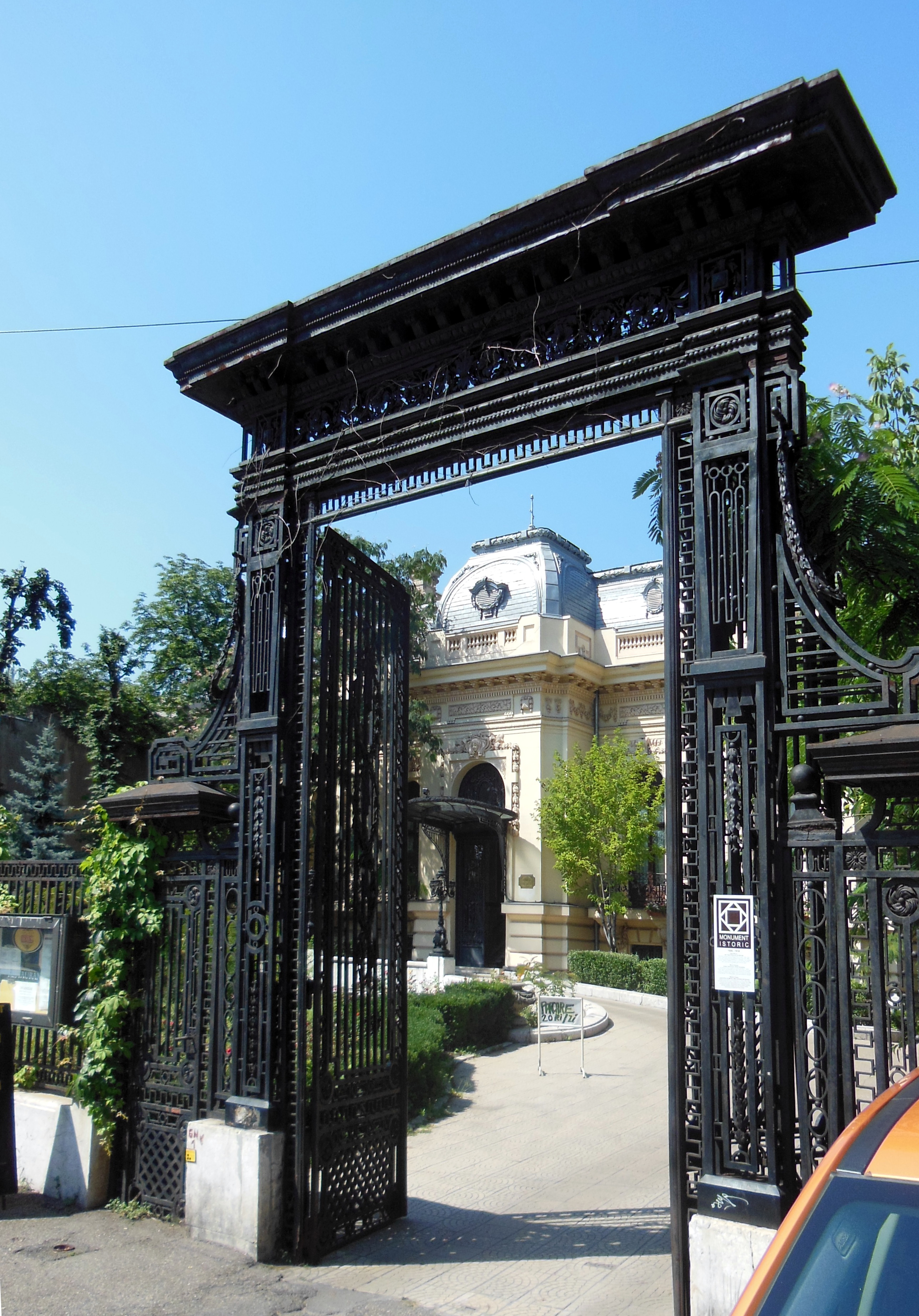 Assan's house in Bucharest